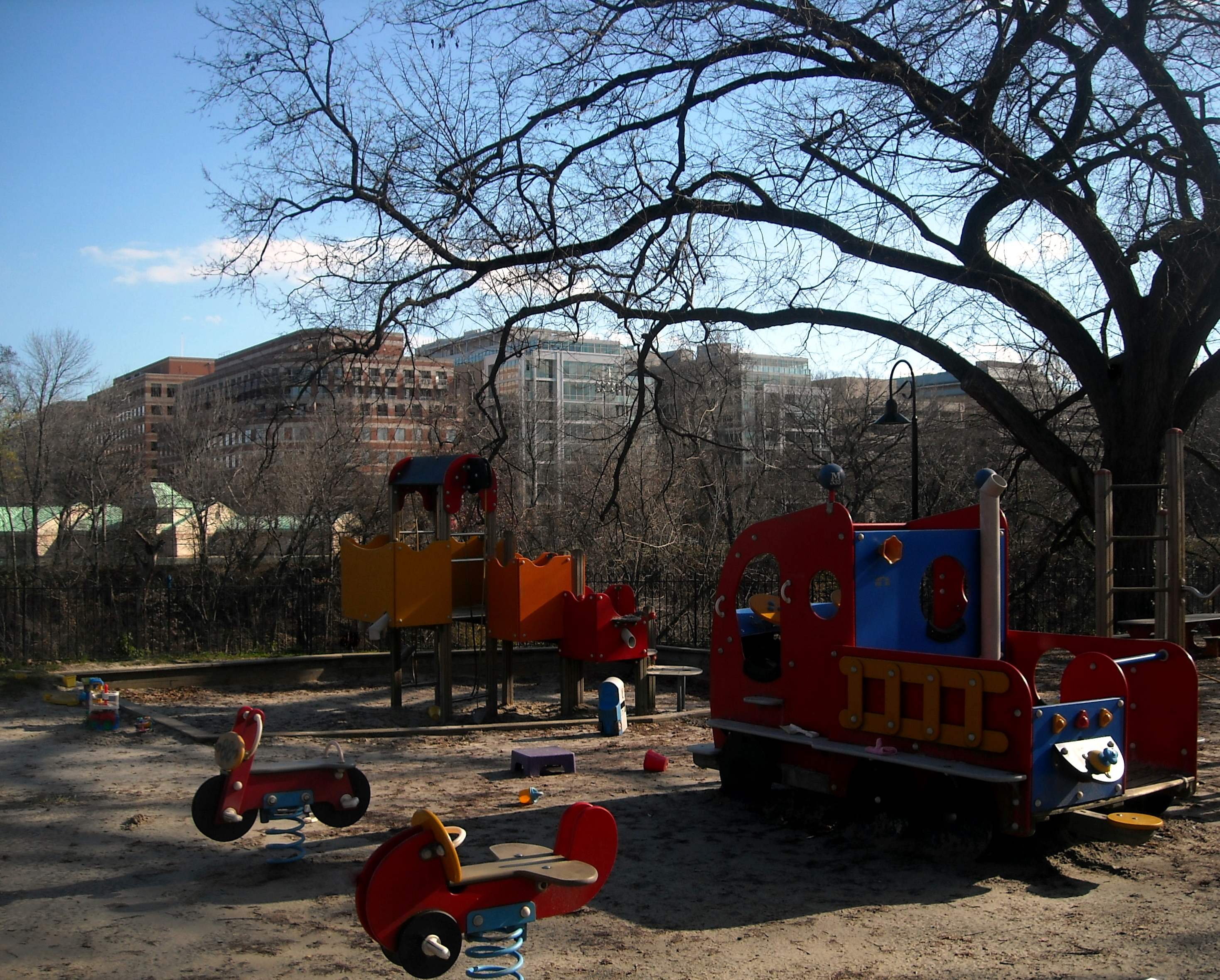 The Rose Park Recreation Center, located near the intersection of 26th and O Streets, N.W., in the Georgetown neighborhood of Washington, D.C. Established in 1918, the park is a contributing property to the Georgetown Historic District, a National Historic Landmark, and the Rock Creek and Potomac Parkway, listed on the National Register of Historic Places.